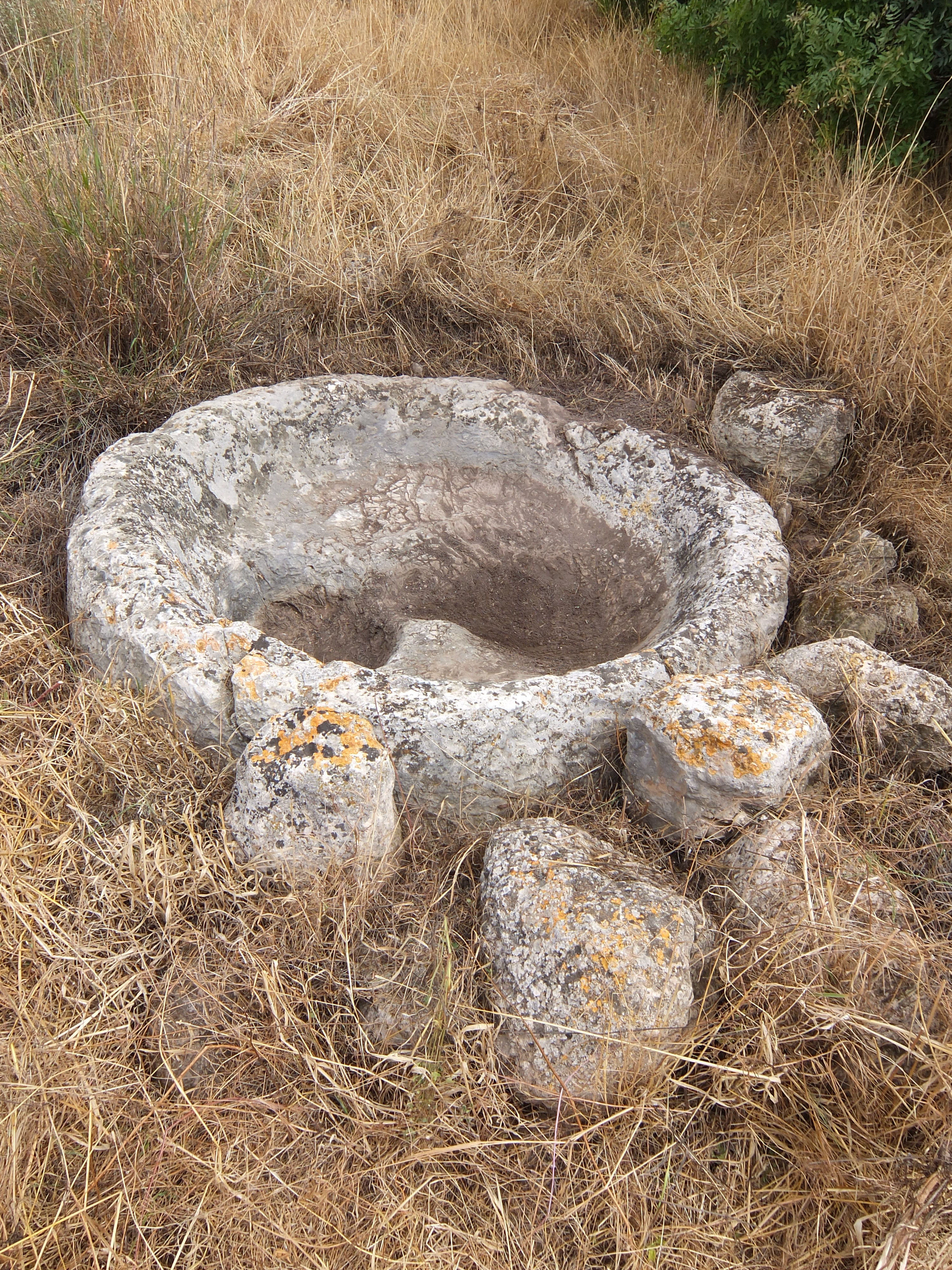 Khirbet 'Aid el-Miah (Adullam ruin)